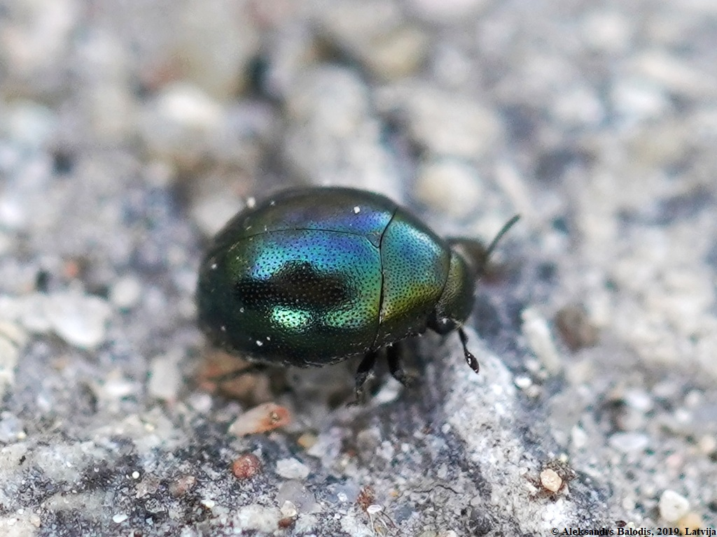 Lamprobyrrhulus nitidus